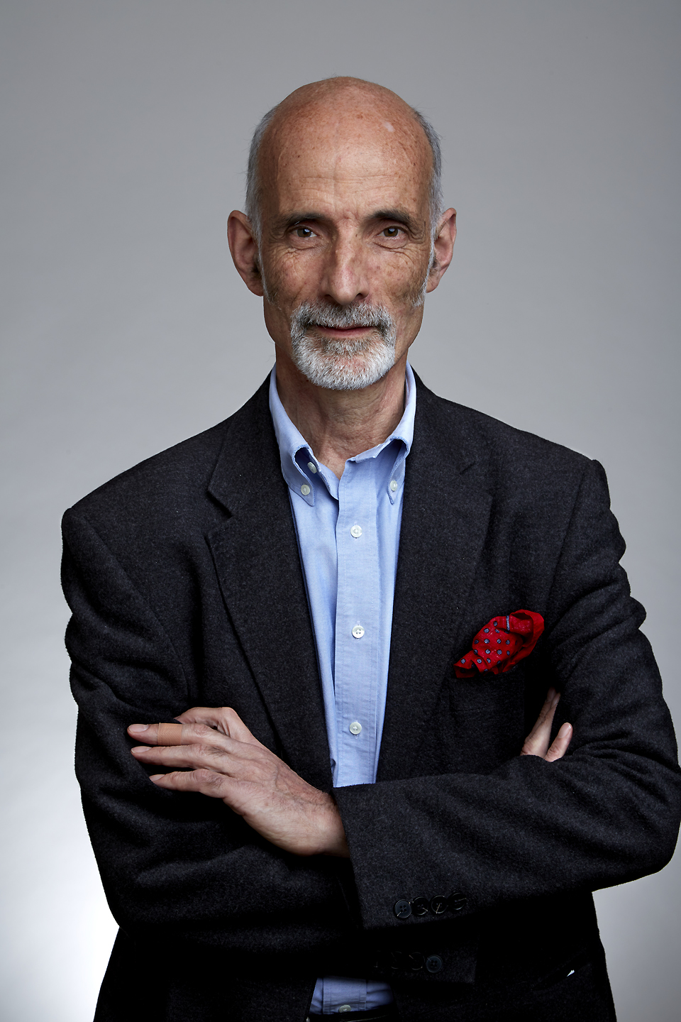 Jonathan Felix Ashmore is a British physicist, and Bernard Katz Professor of Biophysics, at the University College London, Ear Institute. Attribution: The Royal Society